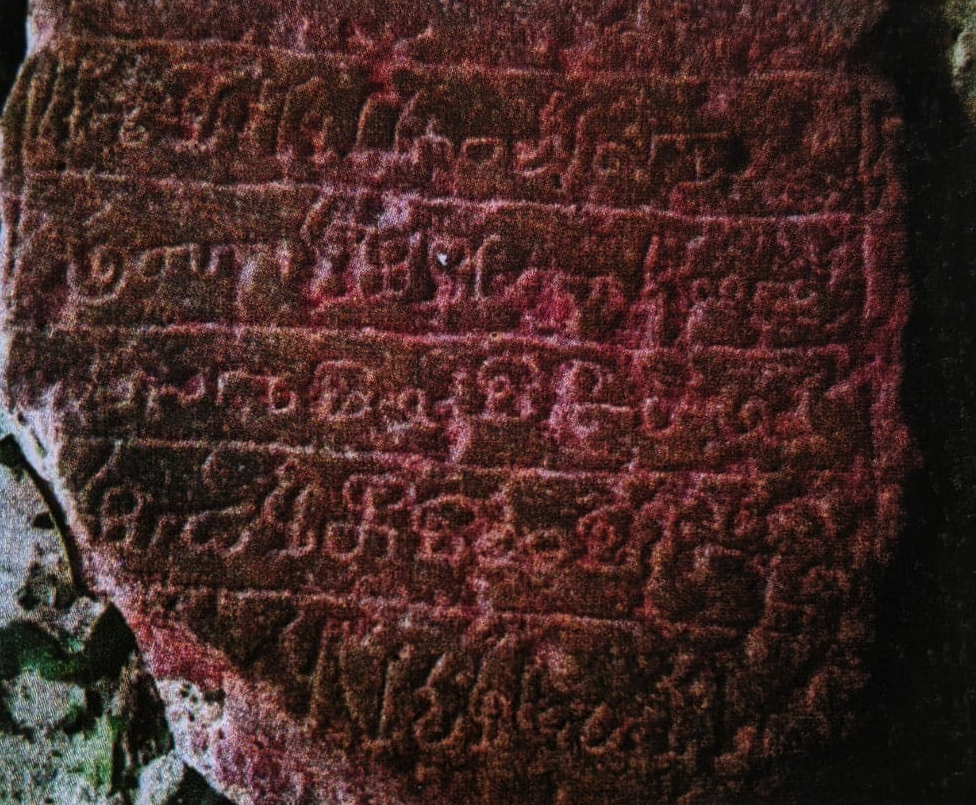 Periyapuliyankulam inscription - 13th century AD